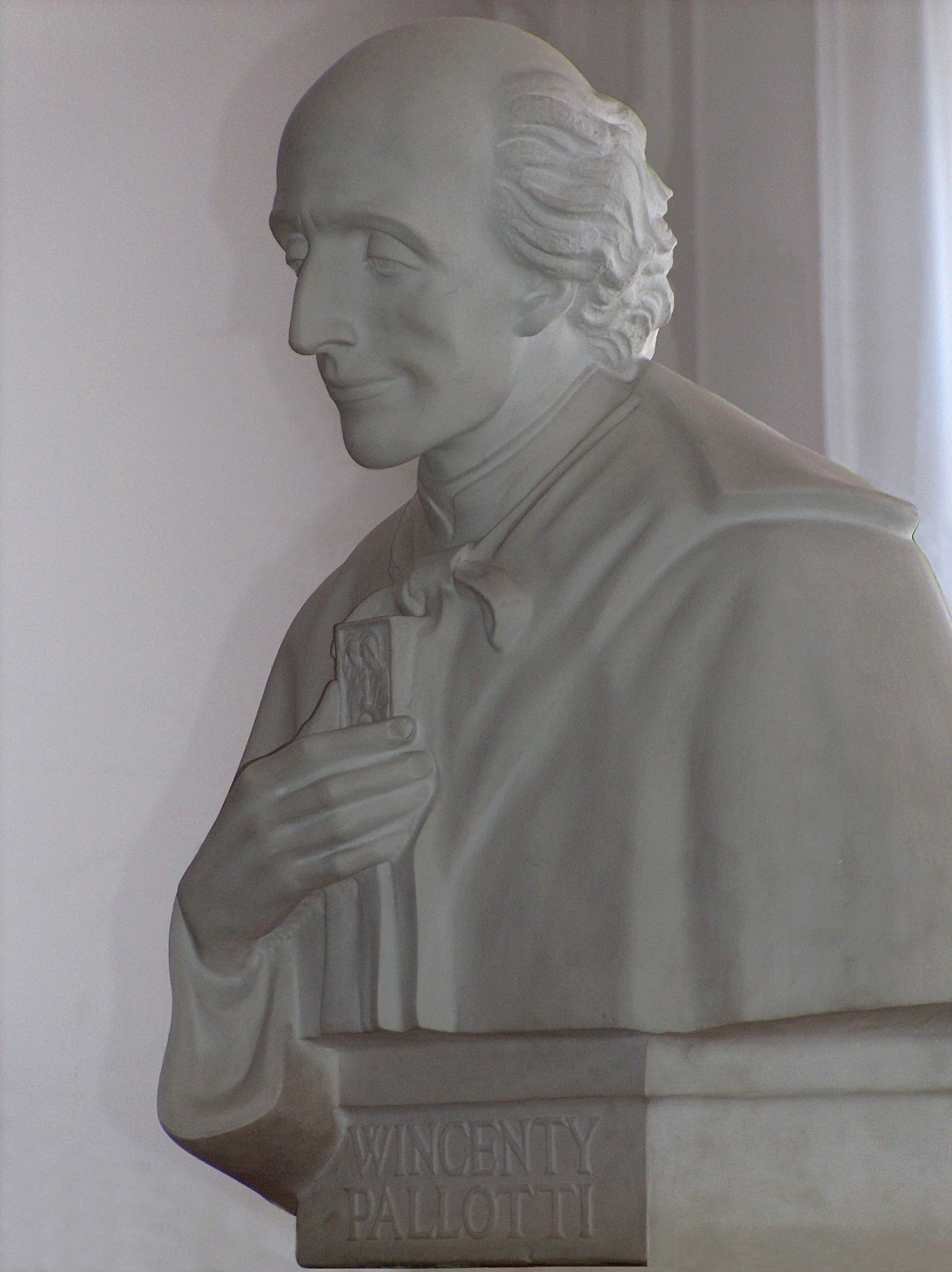 Bust of st. Vincent Pallotti in Ołtarzew, Poland